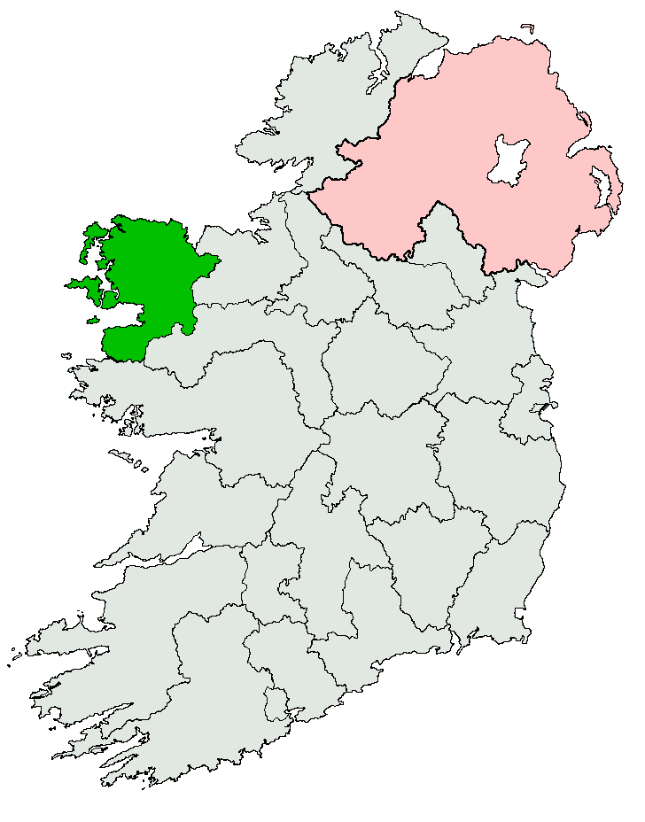 Map depicting the former Irish electoral constituency of Mayo North and West, created under the Government of Ireland Act 1920 and abolished under the Electoral Act of 1923.